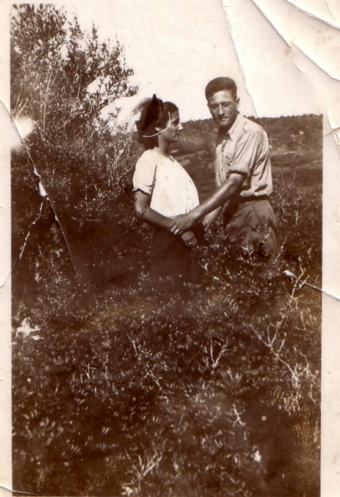 Lieutenant Enzo Dini and his wife Elena in Barqa or Barce, Libya